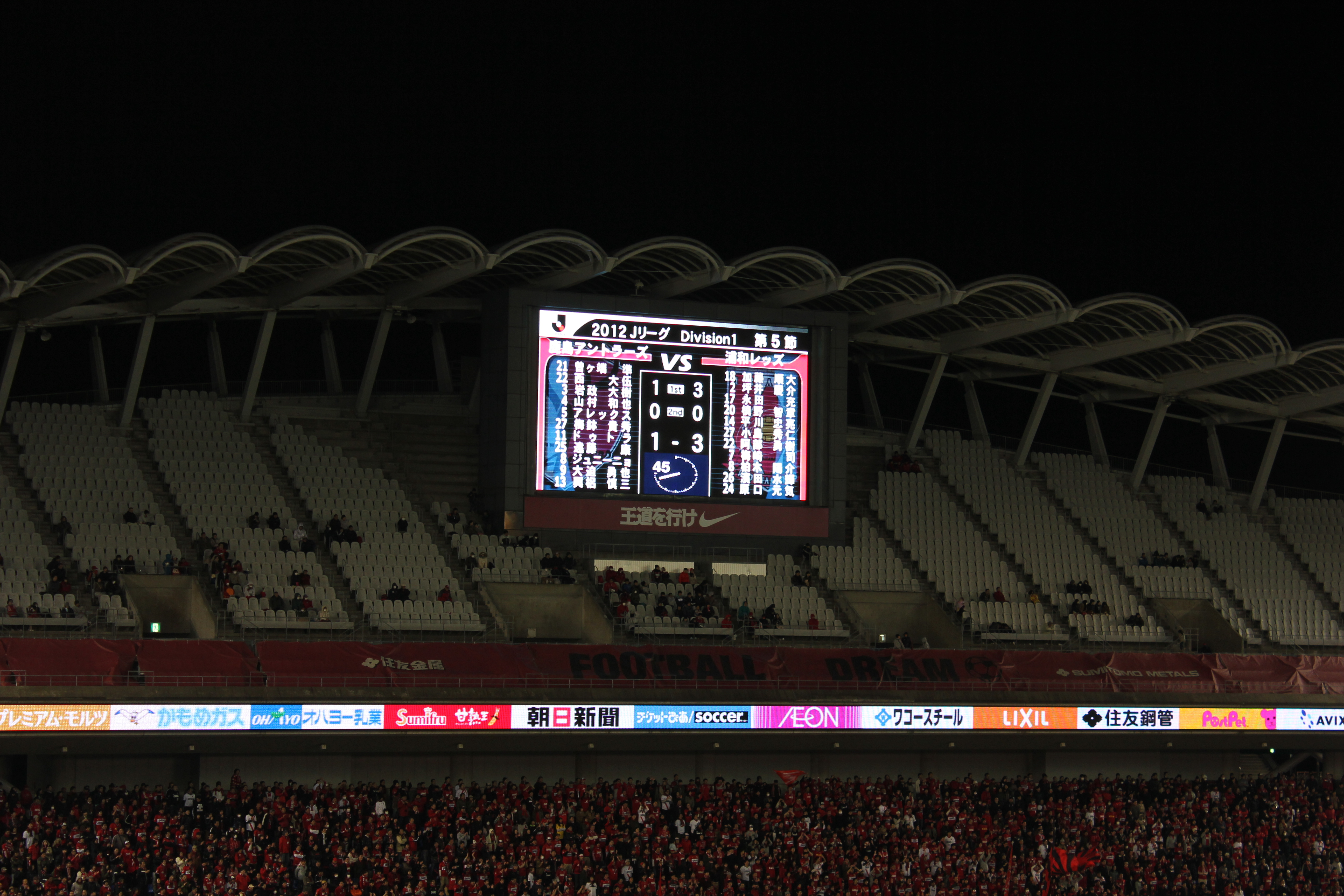 Kashima Soccer Stadium